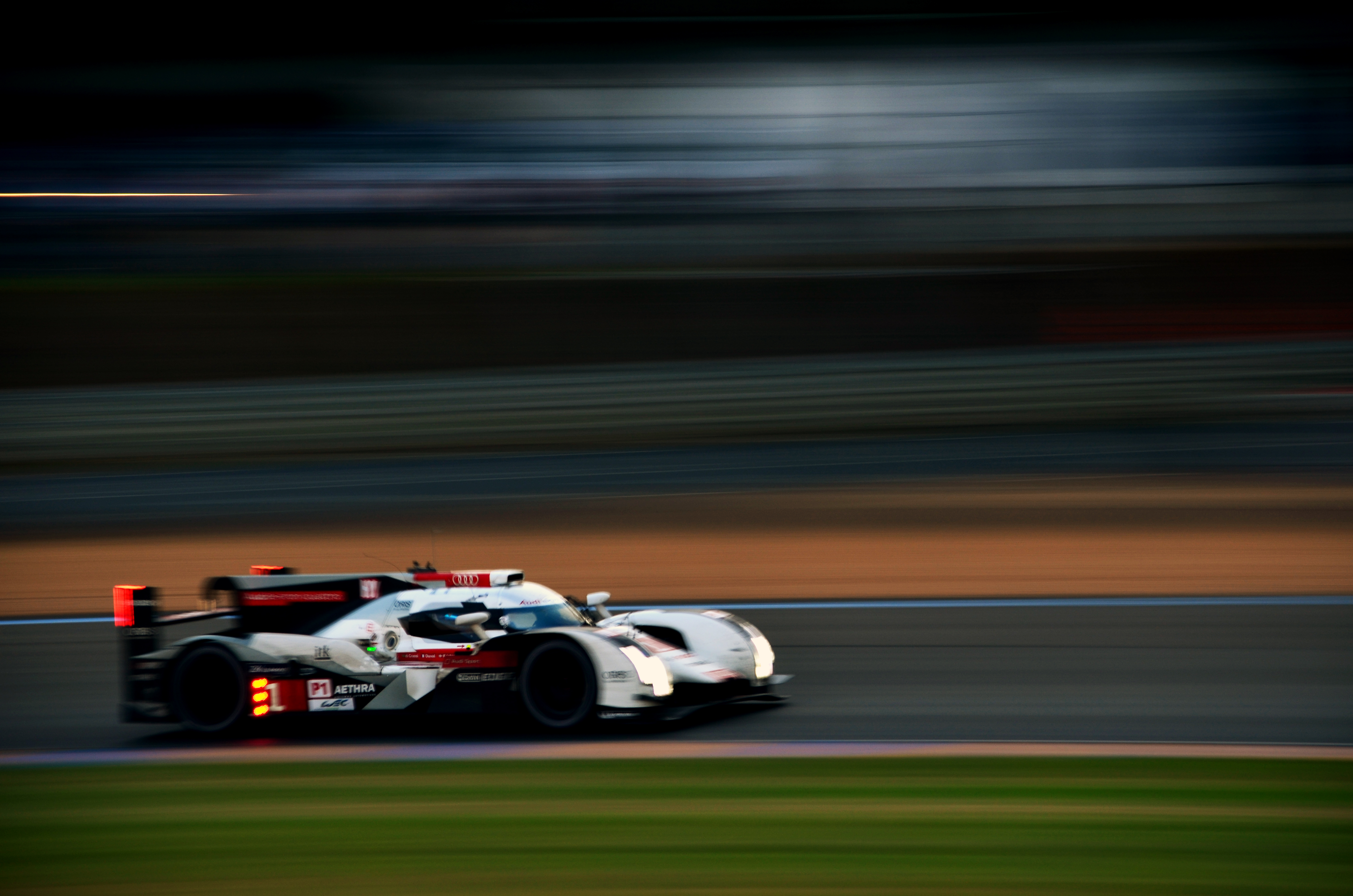 Audi #1 The number one Audi R18 e-tron Quattro LMP-1 car of Andre Lotterer, Marcel Fassler and Benoit Treluyer rounds the first of the Porsche curves approaching the 10 hour mark of the 2014 24 Hours of Le Mans race.